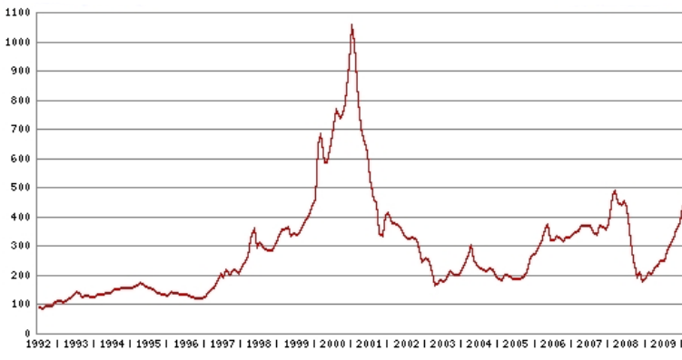 Palladium price 1992-2009